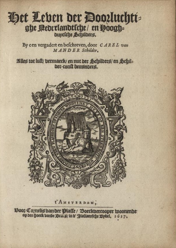 Karel van Mander - Schilderboeck Title page of fourth part on Netherlandish and High-German painters, 1616-1618